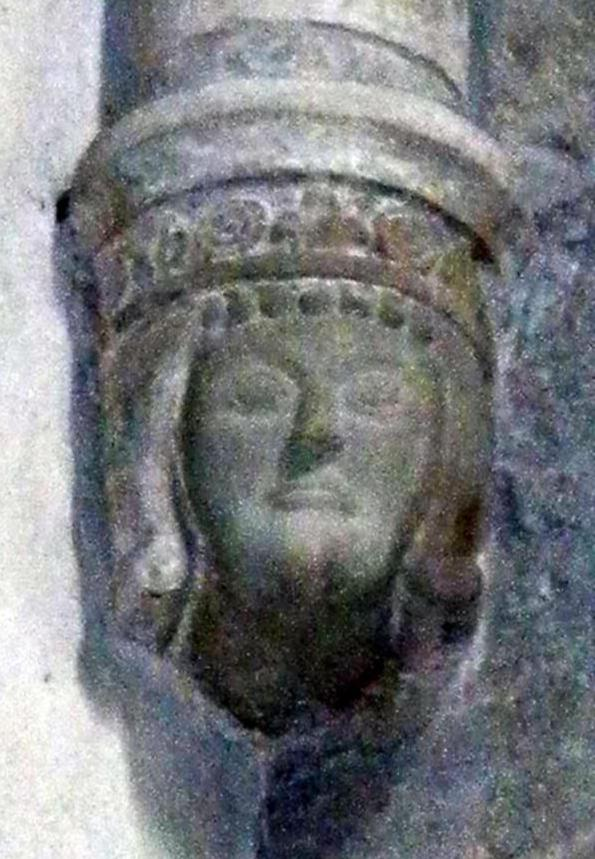 Contemporary bust of Duke Birger of Sweden as identified by Prof. Jan SvanbergPlace: Varnhem Church, Axvall, Sweden